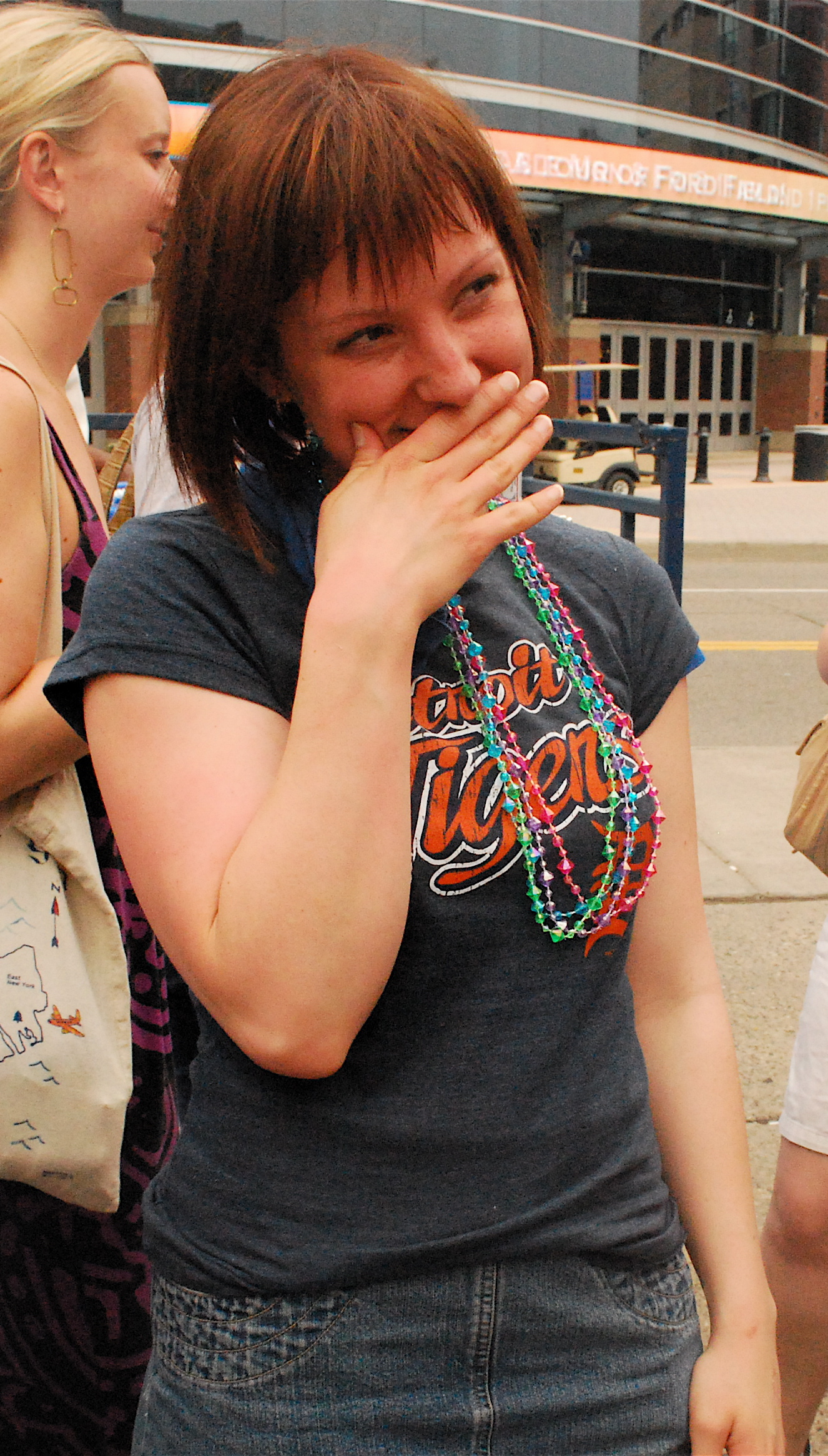 Blushing girl